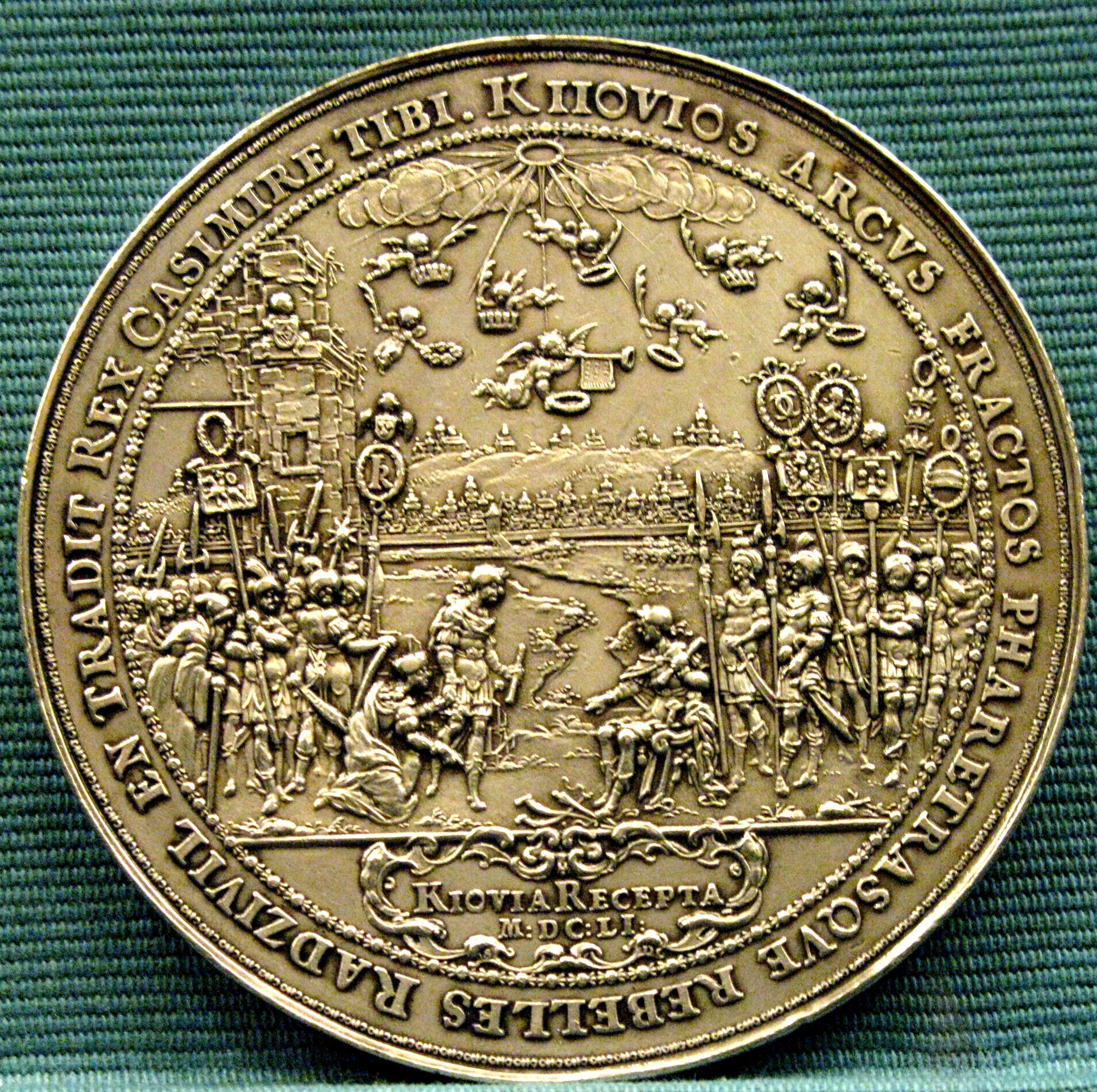 Medal commemorating recapture of Kiev by Janusz Radziwiłł in 1651